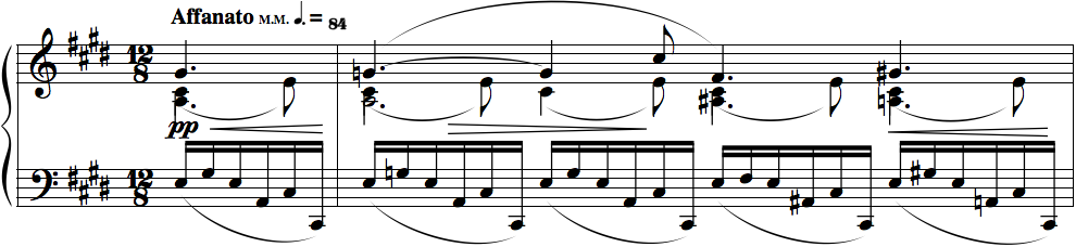 Étude Op. 42, No. 5, composed by Alexander Scriabin